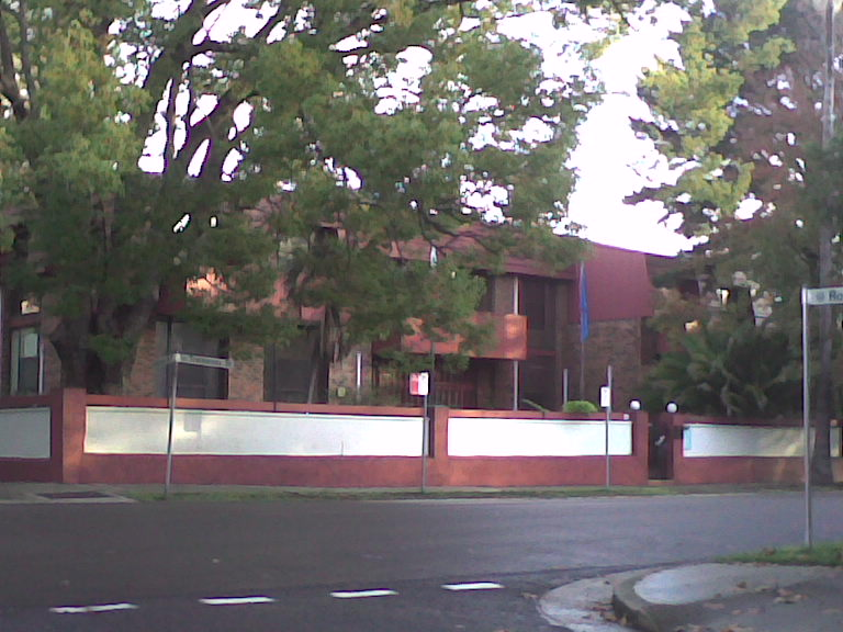 Polish Consulate in Sydney